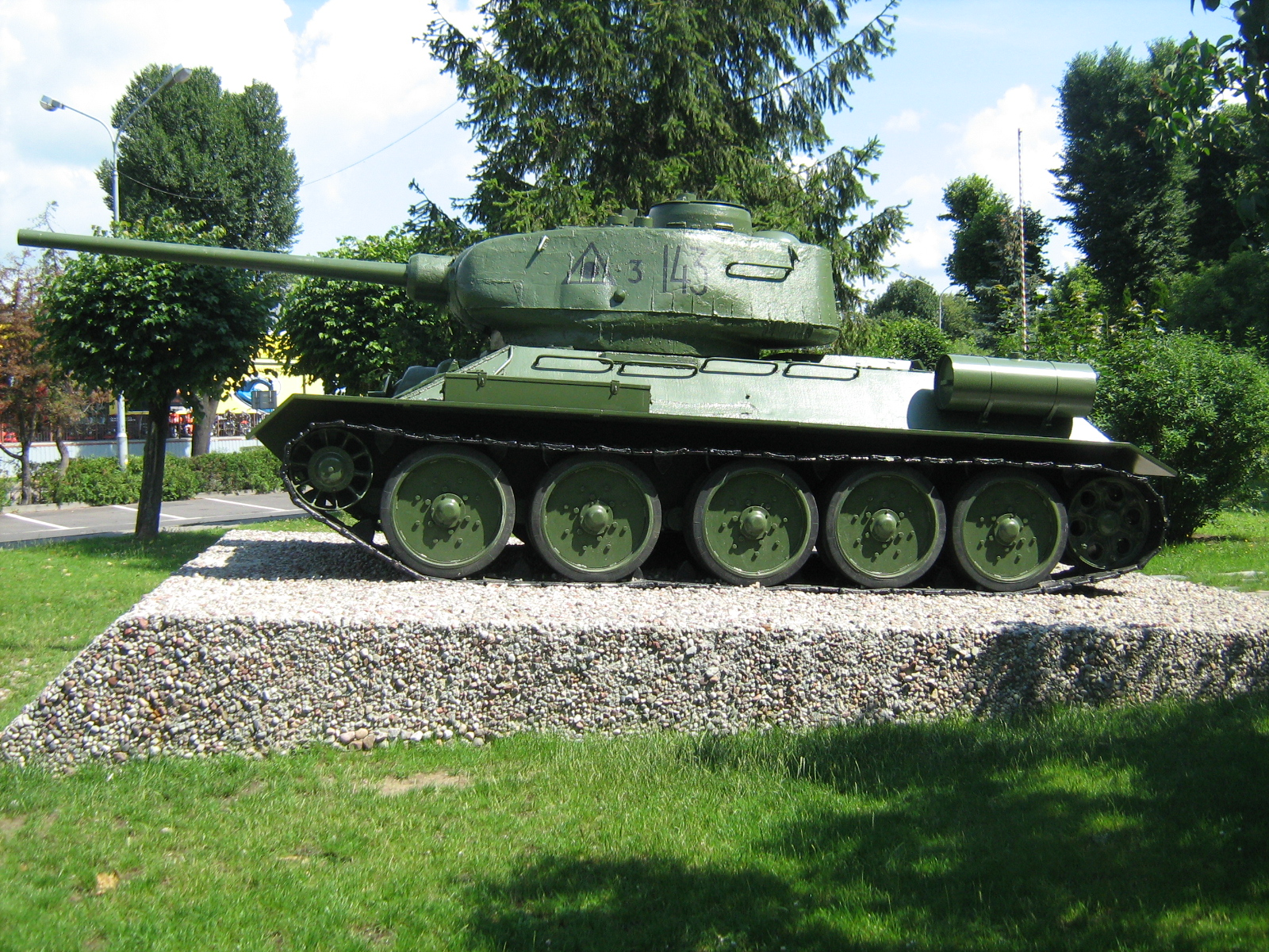 T-34 tank monument in Czarnków, Poland